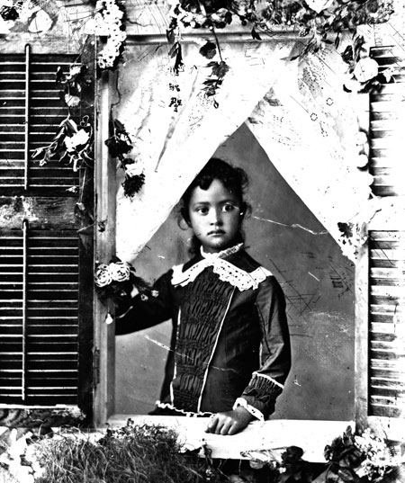 Princess Kaiulani at approximately 6 years old, standing, framed by window with left hand resting on window sill. Probably at Ainahau.